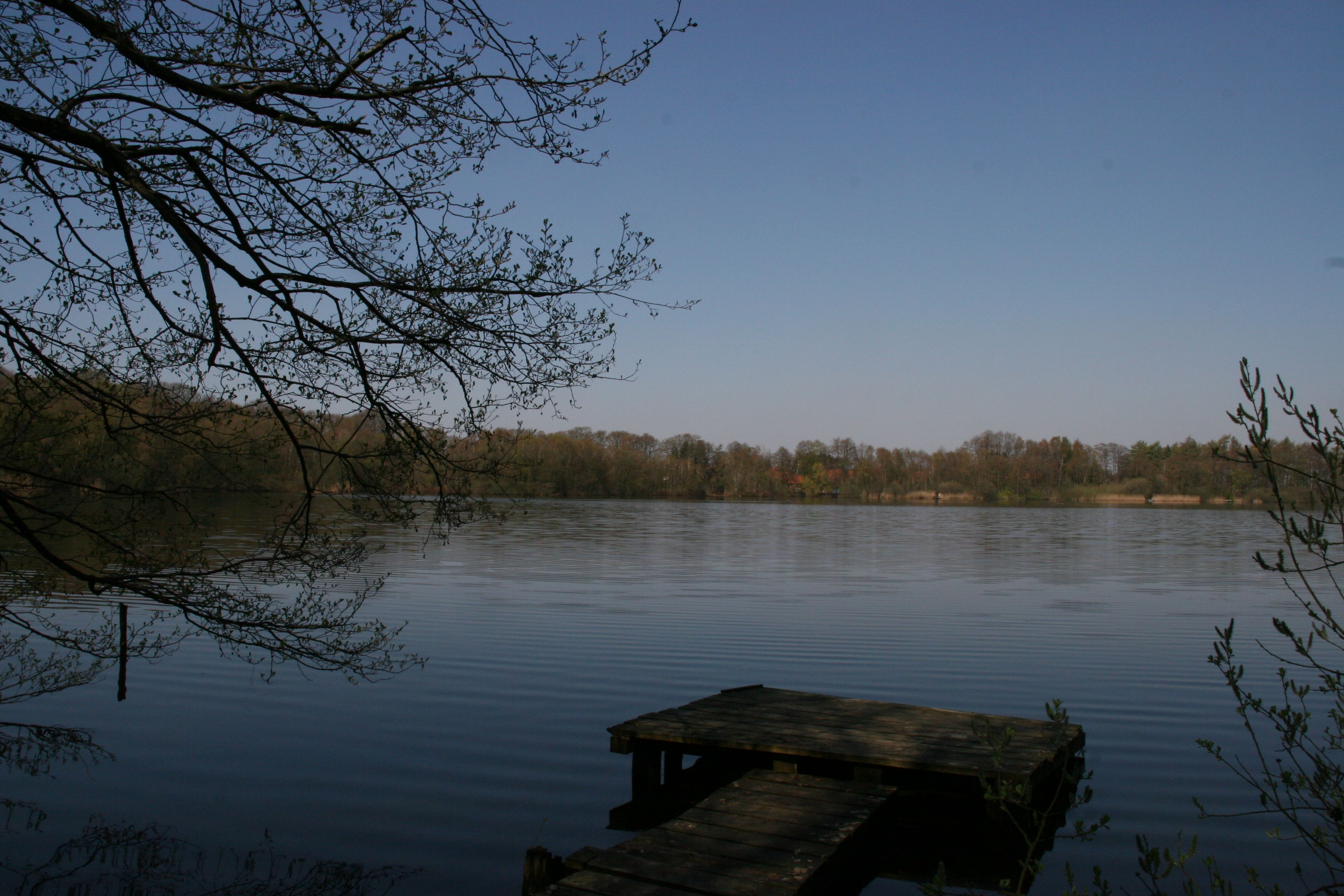 Bramsche-Epe: the Darnsee